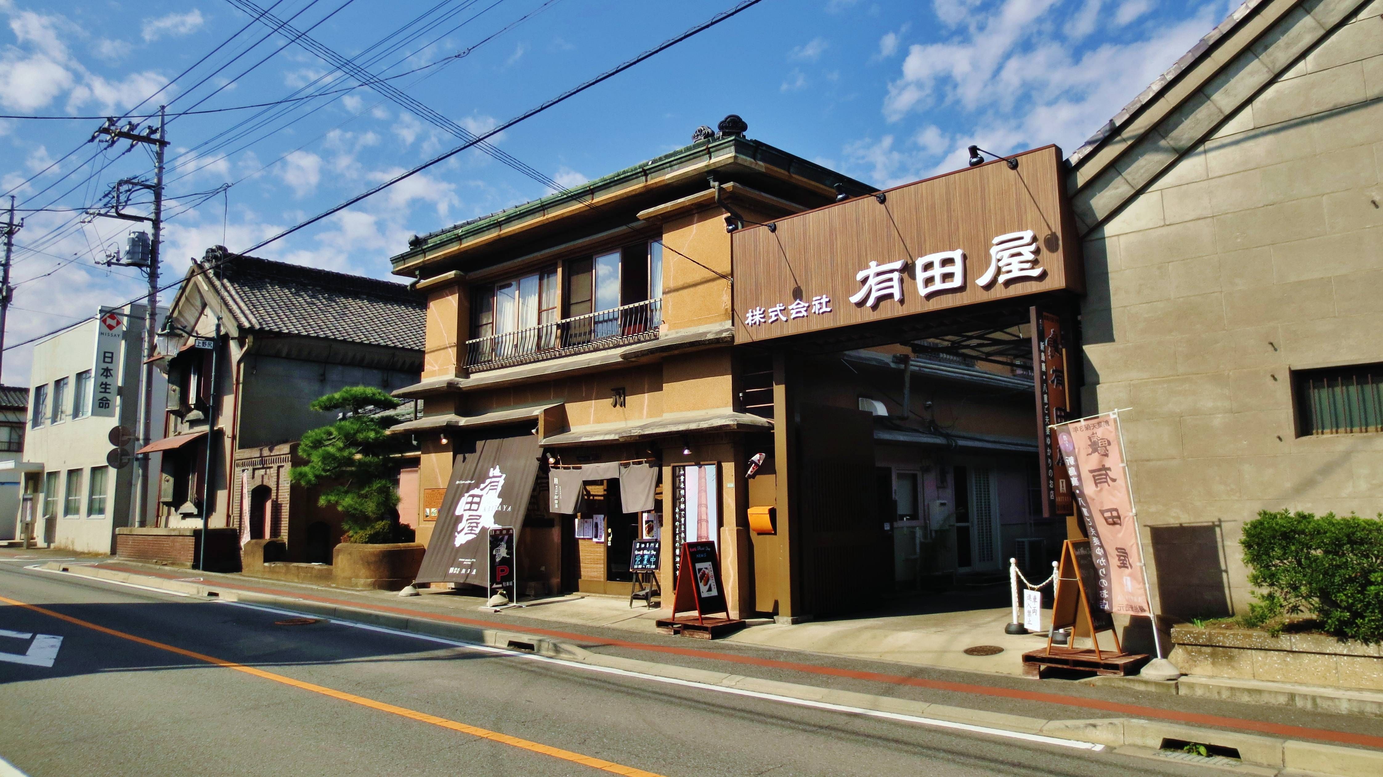 Aritaya.